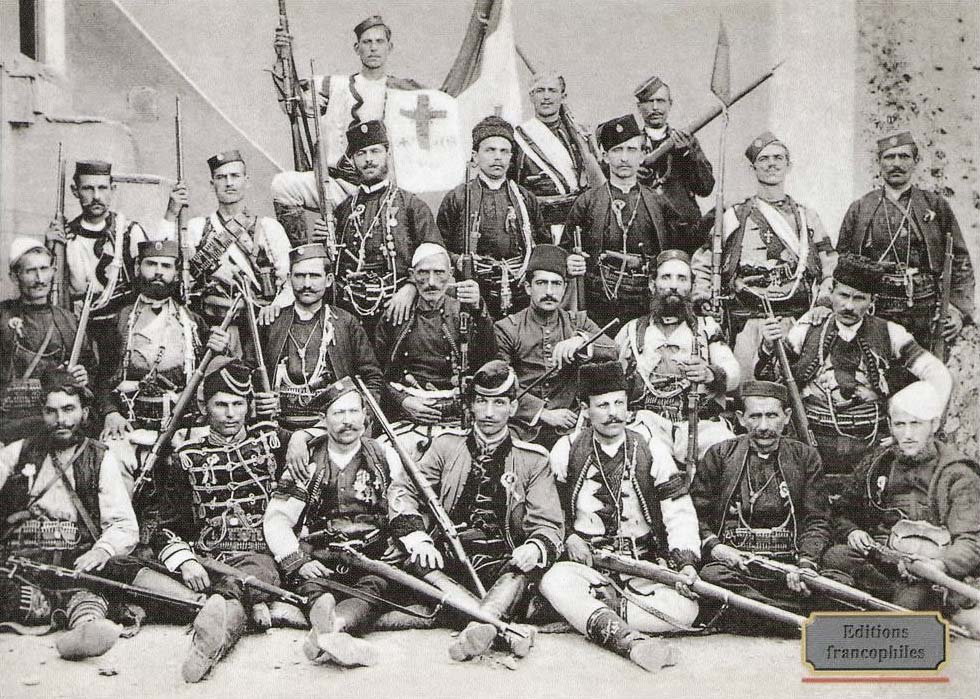 "Serbian Chetnik Voivodes in Old Serbia and Macedonia". 1st row: 1. Anđelko Stanković, 2. Dane Stojanović, 3. Zafir Premčević 2nd row: 1. Koce Drenovski, 2. Petko Ilić, 3. Rista Starački, 4. Stefan Nedić-Ćela, 5. Denko, 6. Čuma, 7. Boško Virjanac 3rd row: 1. Živko Gvozdić, 2. Mihailo Josifović, 3. Gligor Sokolović, 4. Micko Krstić, 5. Ottoman officer(?), 6. Jovan Dovezenski, 7. Trenko Rujanović 4th row: 1. Todor Krstić-Algunjski, 2. Kosta Milovanović-Pećanac, 3. Cene Marković, 4. Đorđe Ristić-Skopljanče, 5. Jovan Stojković-Babunski, 6. Jovan Dolgač, 7. Milan Babović